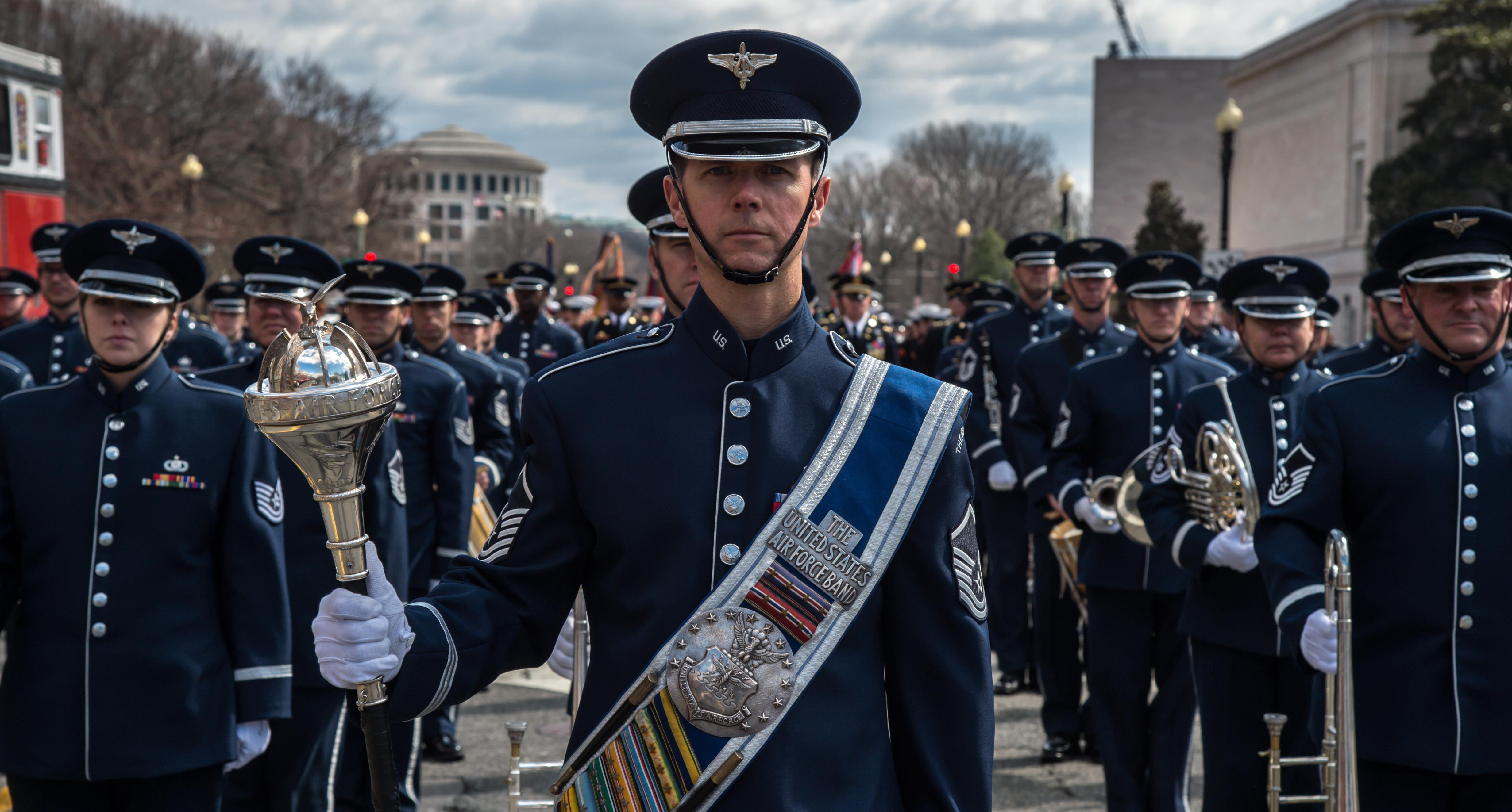 Master Sgt. Daniel Valadie prepares to march down Constitution Avenue as part of the 44th Annual St. Patrick’s Parade March 15, 2015, in Washington, D.C. Valadie is a drum major. (U.S. Air Force photo by Airman 1st Class Philip Bryant/Released)